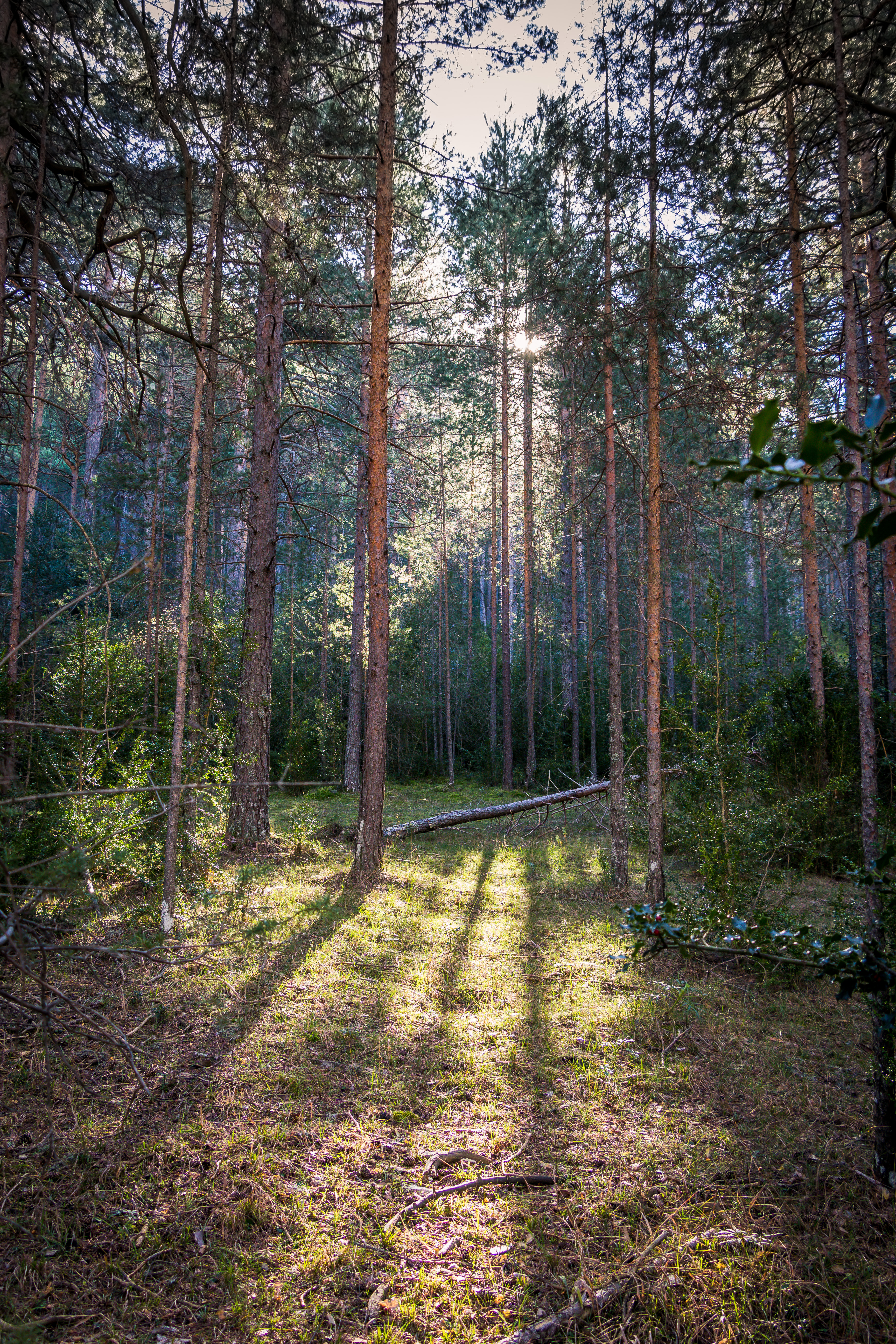 This is a photography of a Special Area of Conservation in Spain with the ID: ES4230014. Natura2000 entry, EEA entry